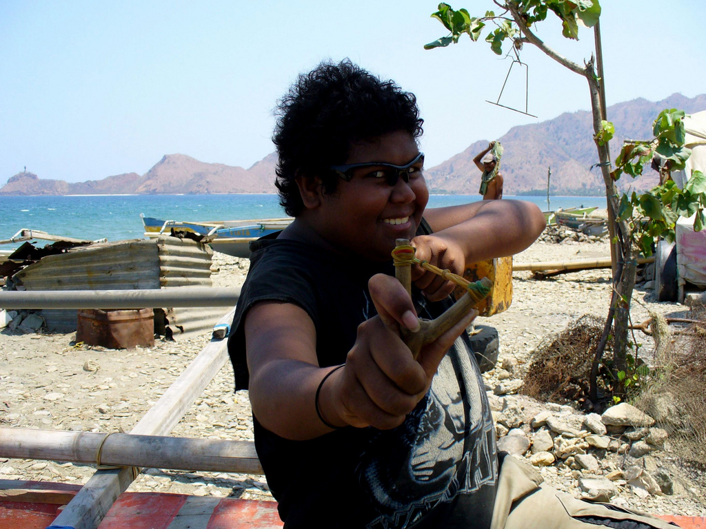 Boy in Dili, East Timor